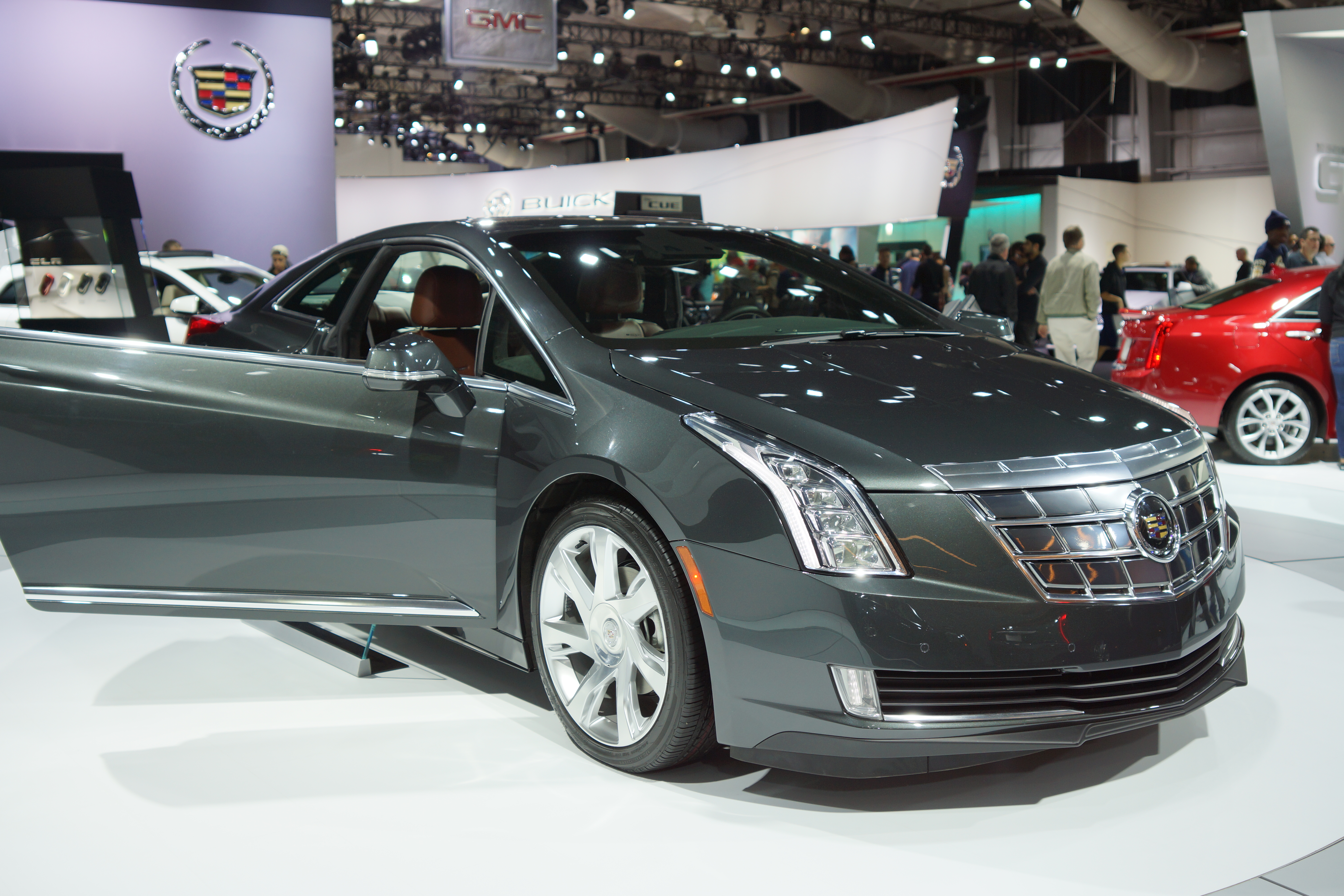 2014 Cadillac ELR coupe at the 2013 New York Auto Show